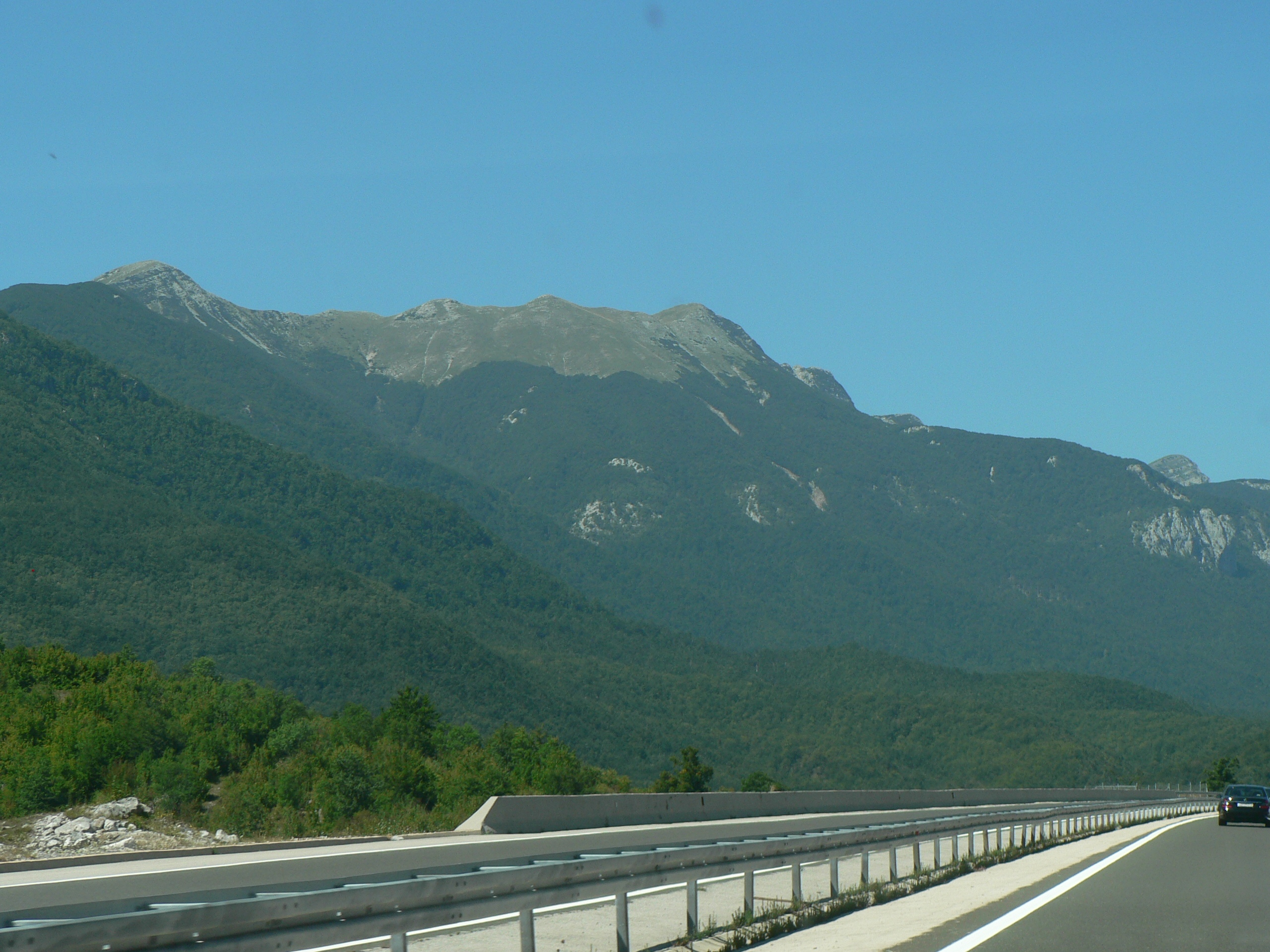 Sveto Brdo (1751 m) in southern Velebit from A1 highway.